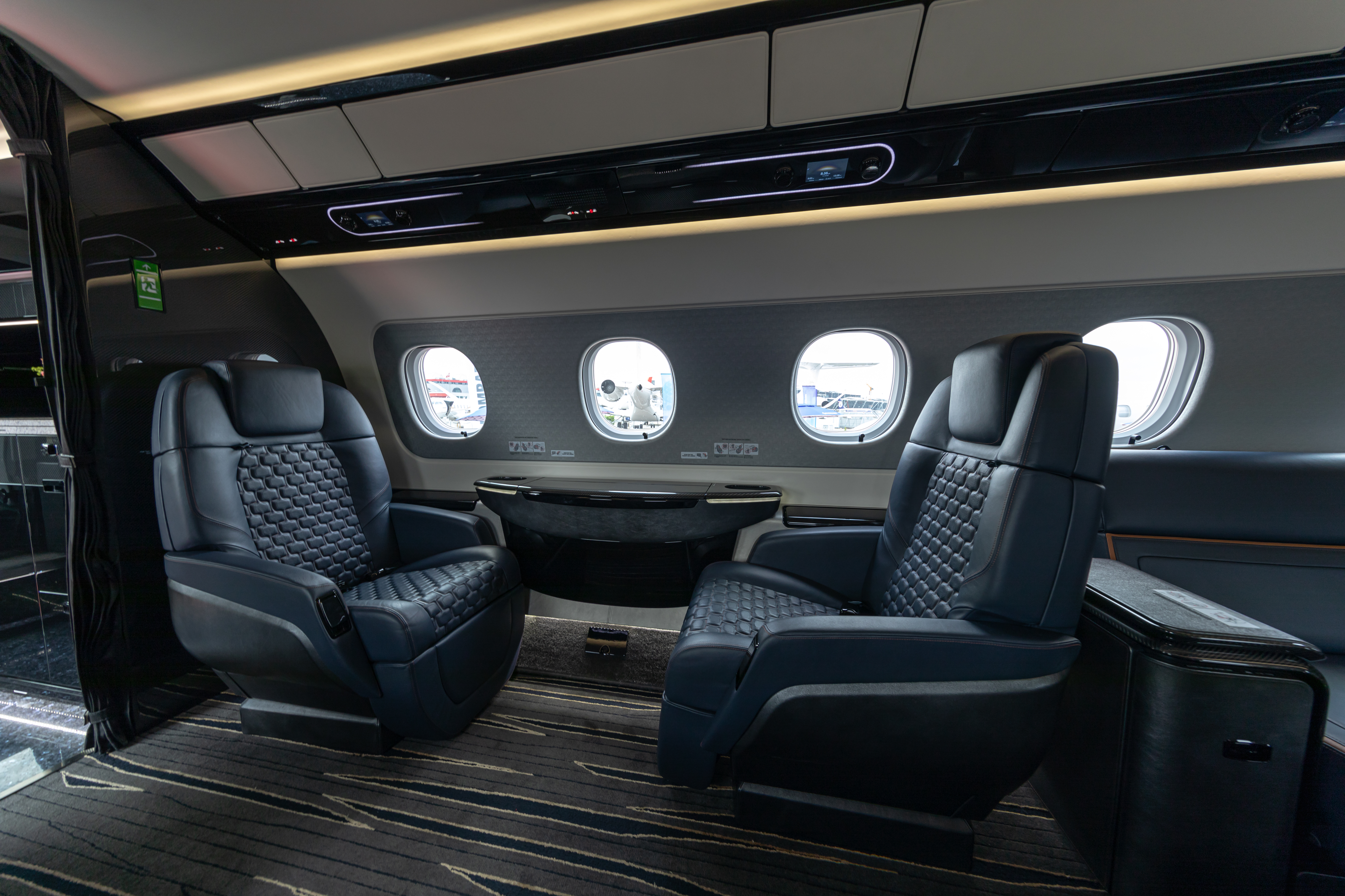 Interior of an Embraer Praetor at EBACE 2019, Palexpo, Switzerland